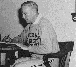 Photograph of Missouri football coach Chauncey Simpson